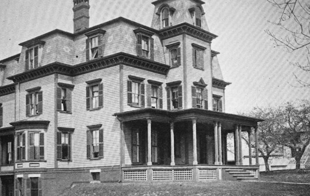 View of the Amherst College Delta Upsilon house on South Pleasant Street, purchased by the fraternity in 1882 (photo c. 1890). The fraternity had a new house constructed in a different location in 1915, and Amherst College bought the property in 1917. The house was removed and Hitchcock Road now runs through the middle of this plot.